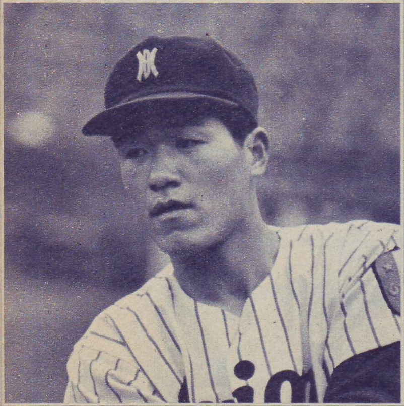 Takao Katsuragi (Mainichi Orions). taken in 1959.